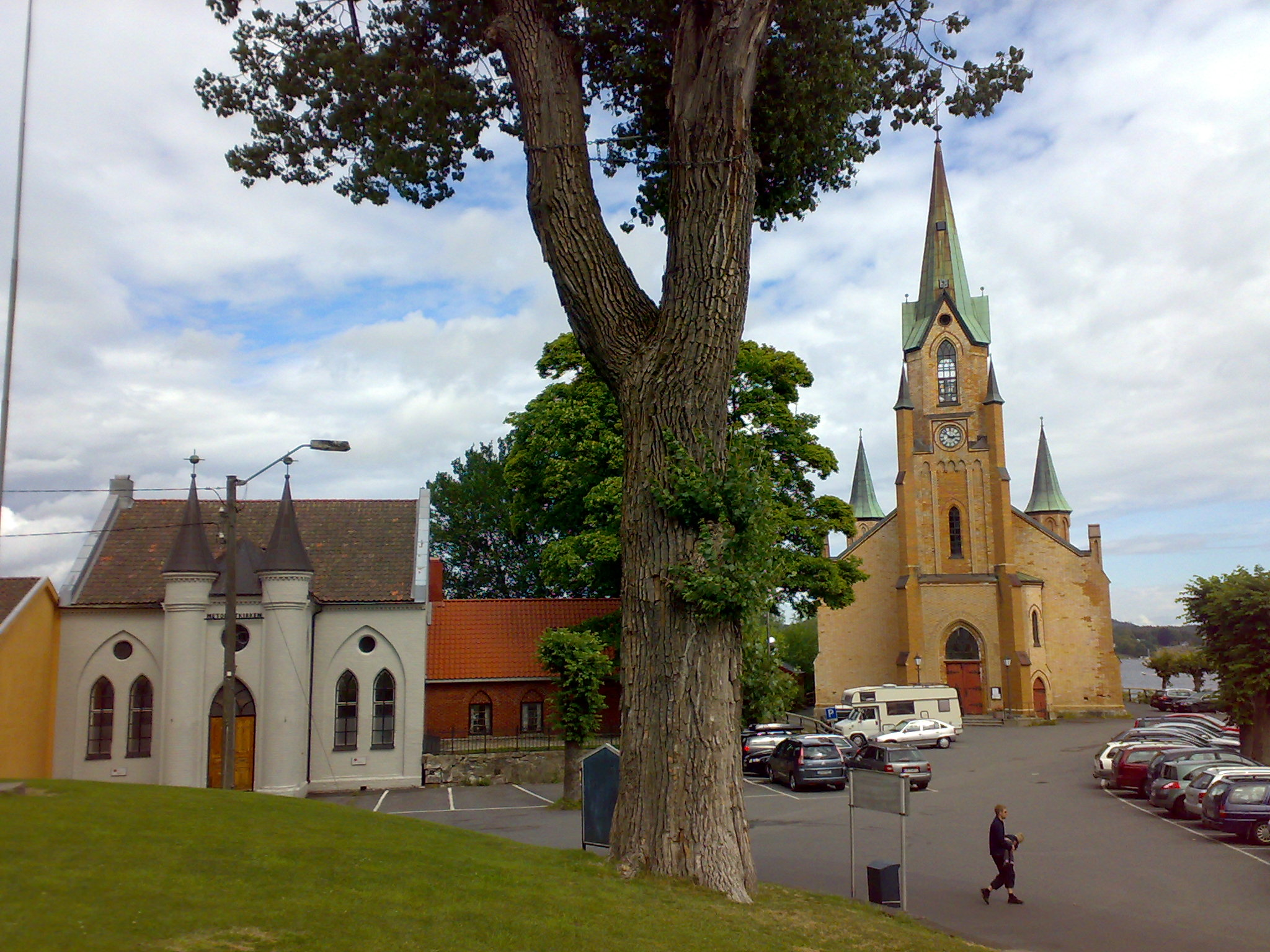 Churches of the city of Krageroe, Norway